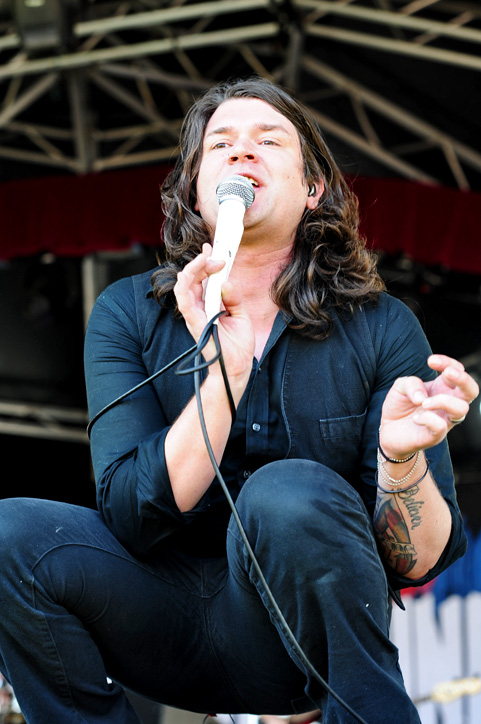 Soundwave Festival 2010